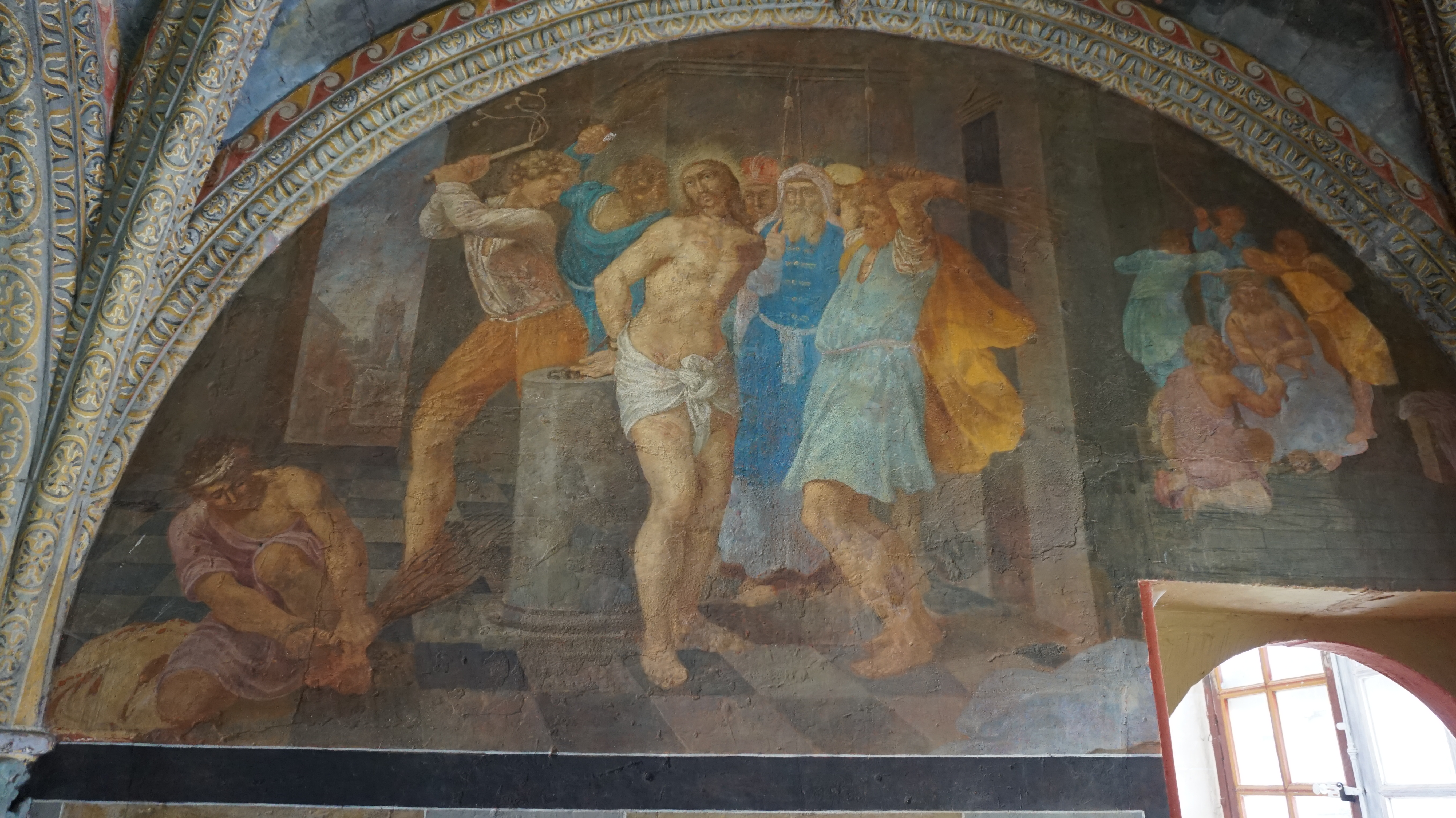 Fresco of Niccolo dell'Abbatte from Vilesavin castle chappel